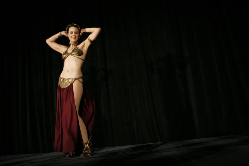 Amira Sa'id teaches fans the art of the belly dance.